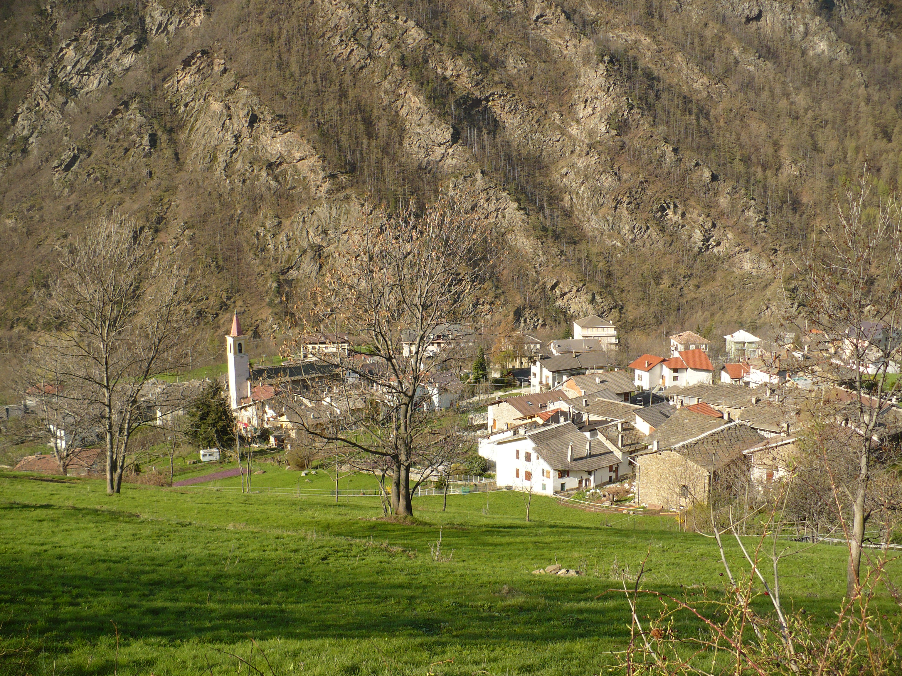 Villaretto - Roure - Province of Turin - Piedmont - Italy